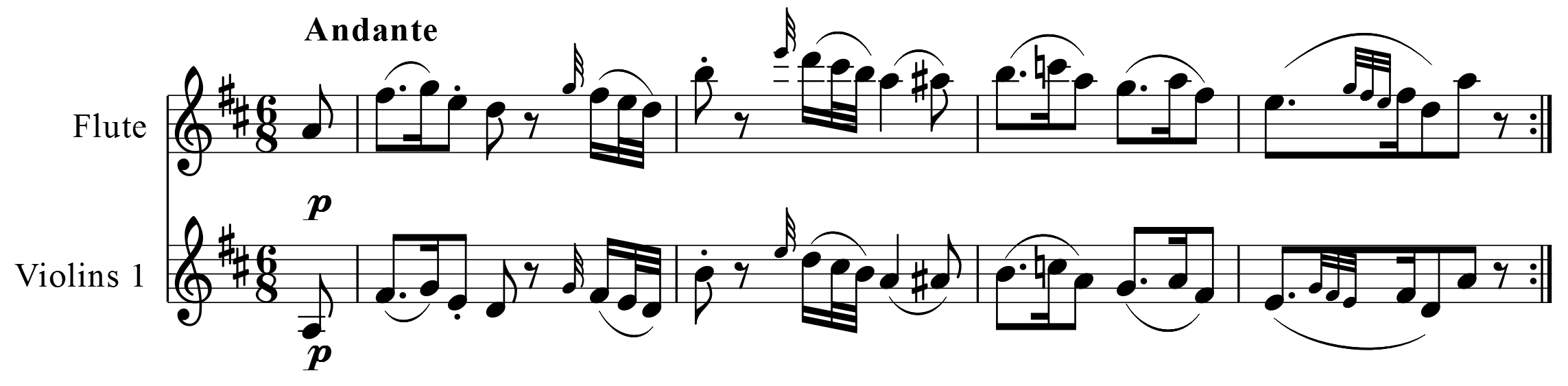 Joseph Haydn, Symphony No. 81, second movement, bar 1-4